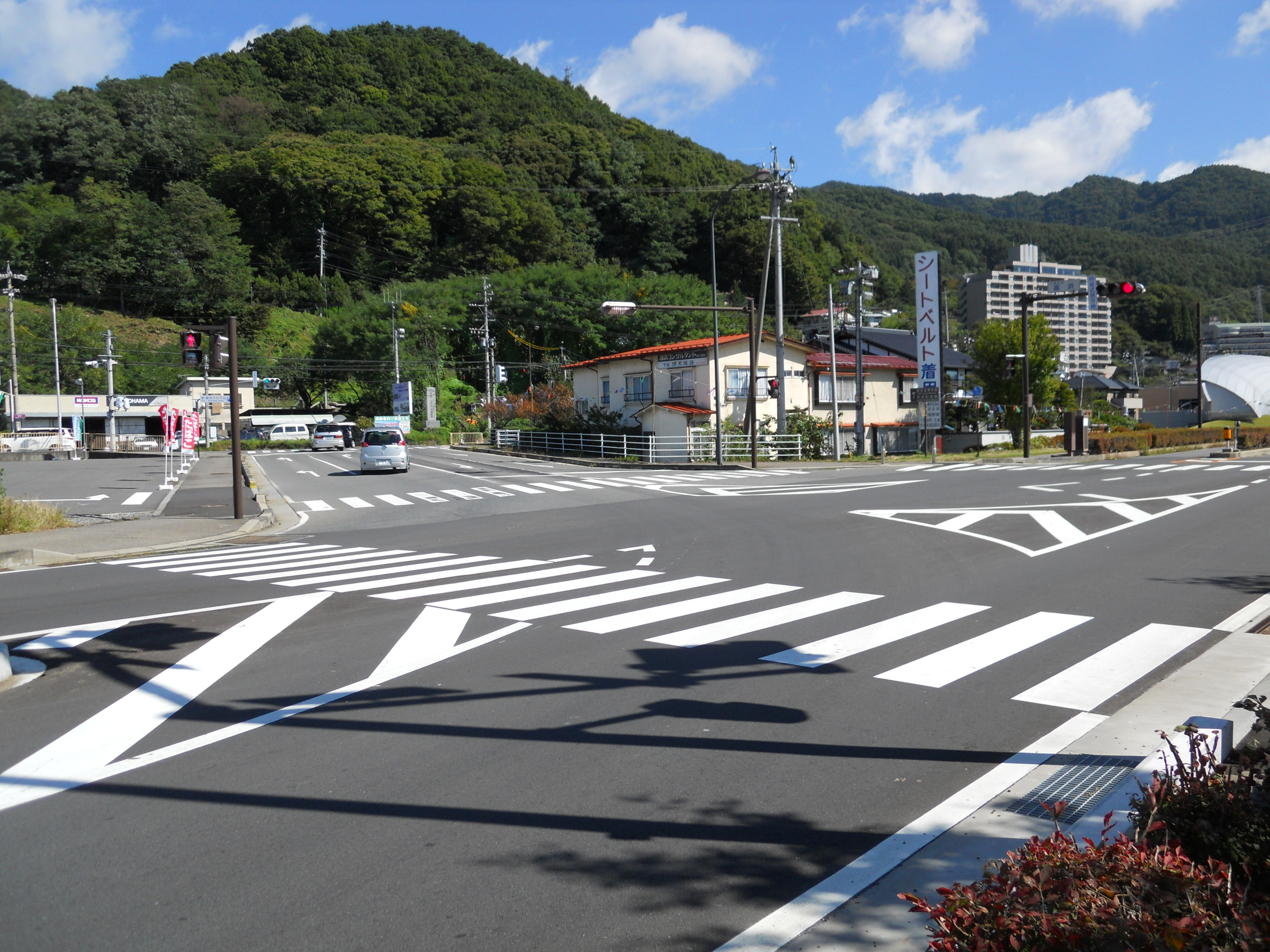 The Takahama Intersection in Shimosuwa Town, Nagano Prefecture, Japan